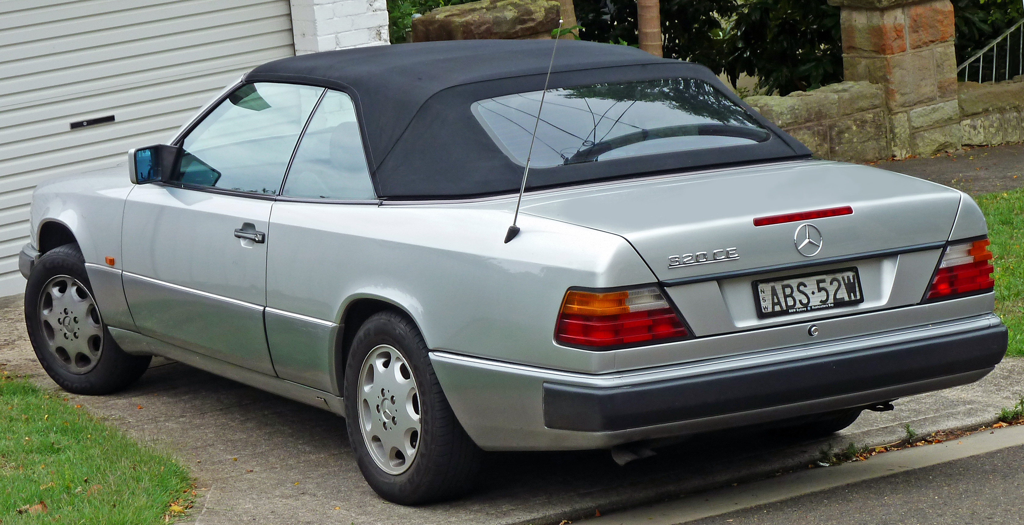 1993 Mercedes-Benz 320 CE (A 124) convertible. Photographed in Bellevue Hill, New South Wales, Australia.